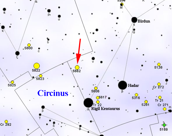 Map of NGC 5662